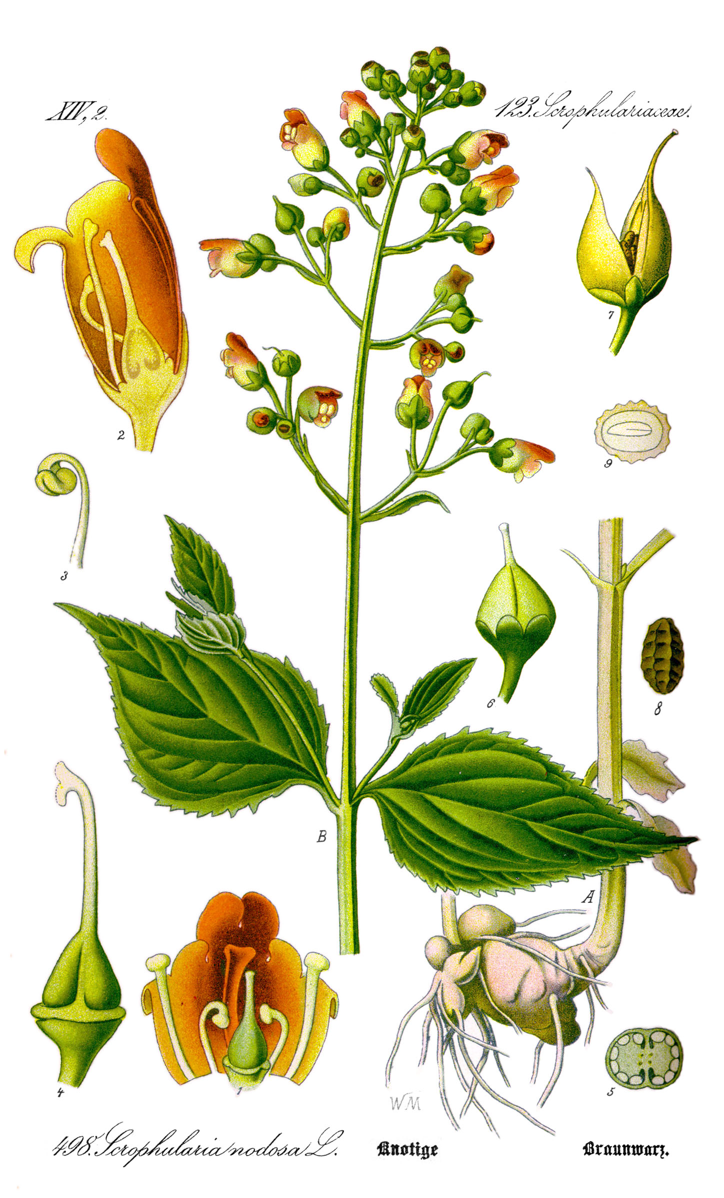 Scrophularia nodosa, Family:Scrophulariaceae